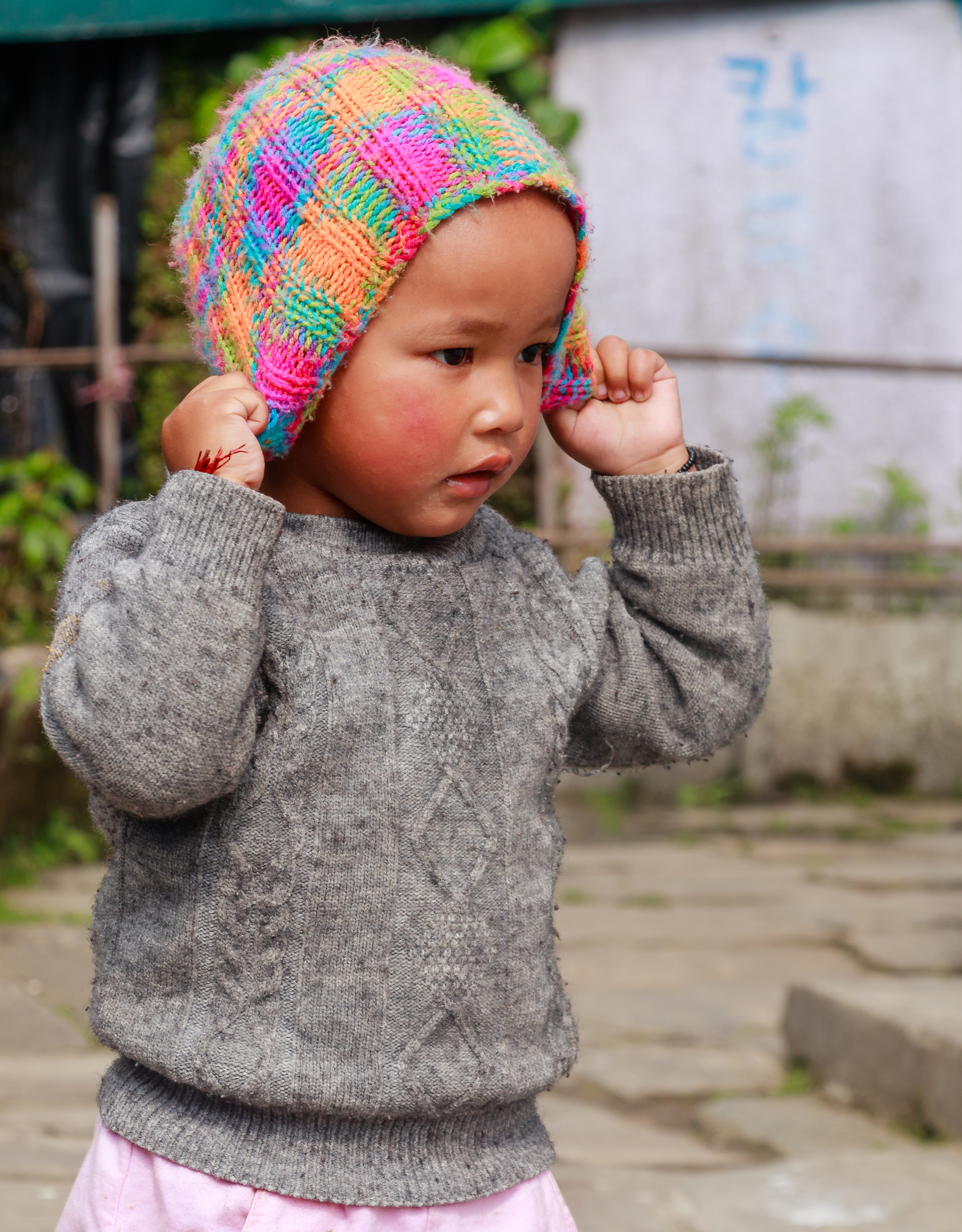 Nepalese Children in Tadapani, Ghandruk-Nepal